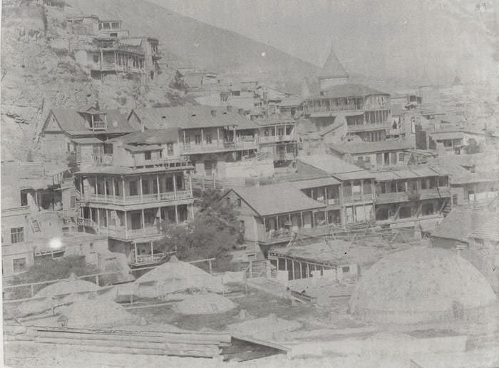 Tbilisi: The old town